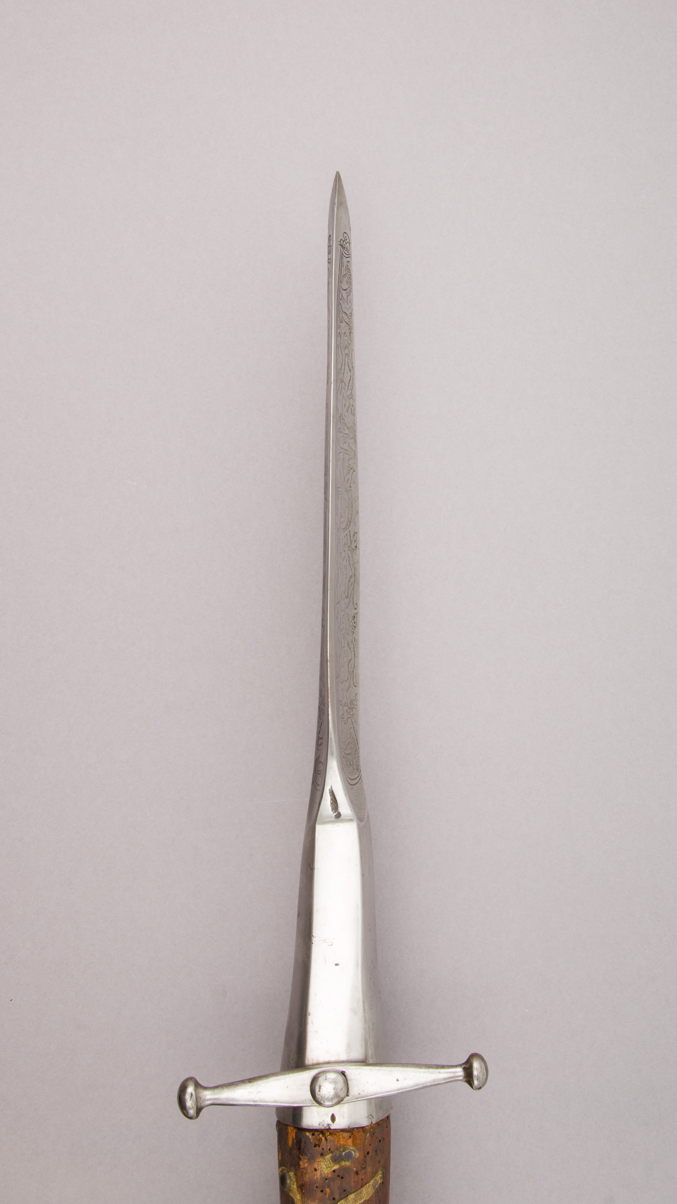 German; Boar spear; Shafted Weapons